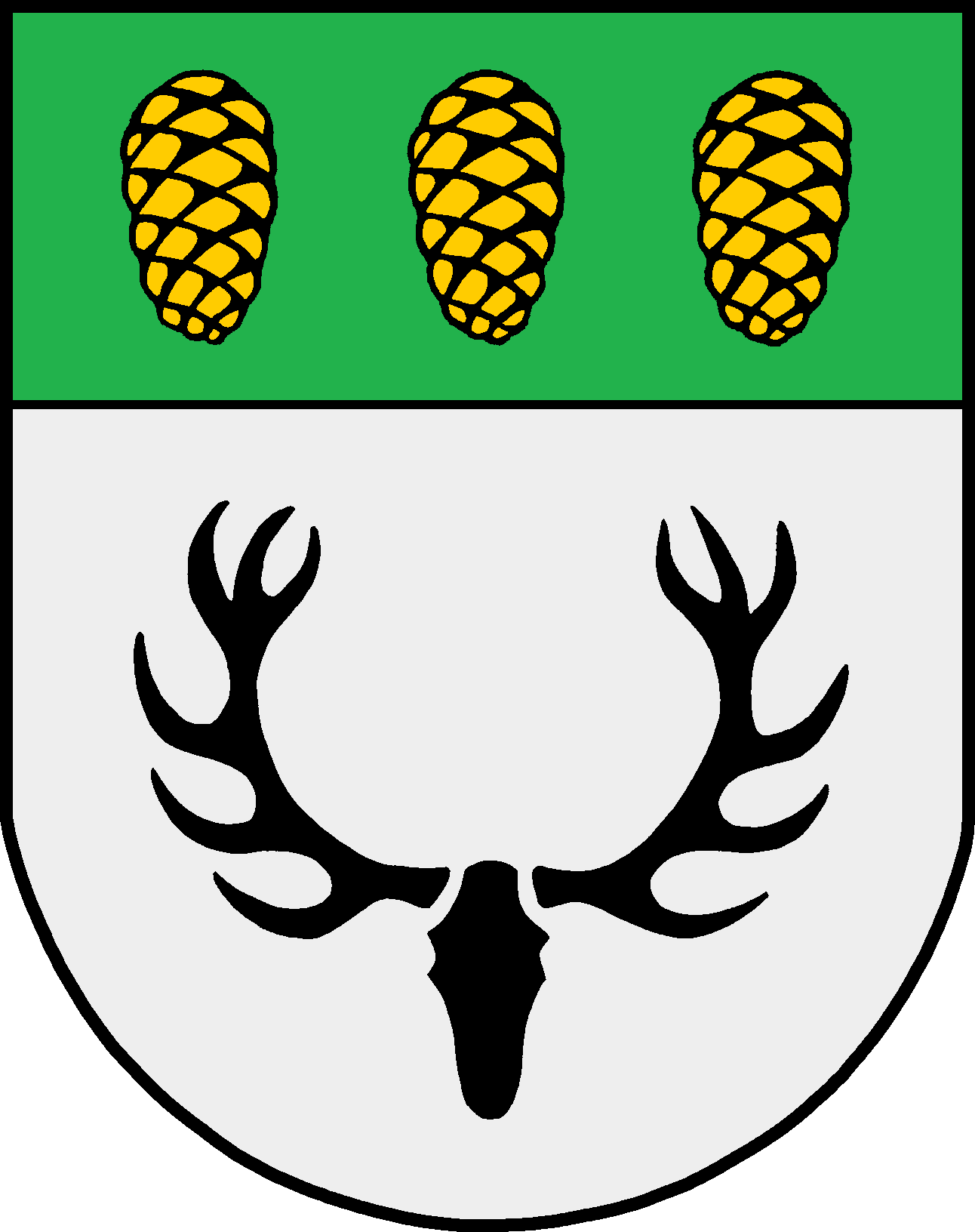 Coat of arms of the municipality Hartenholm in Schleswig-Holstein, Germany.